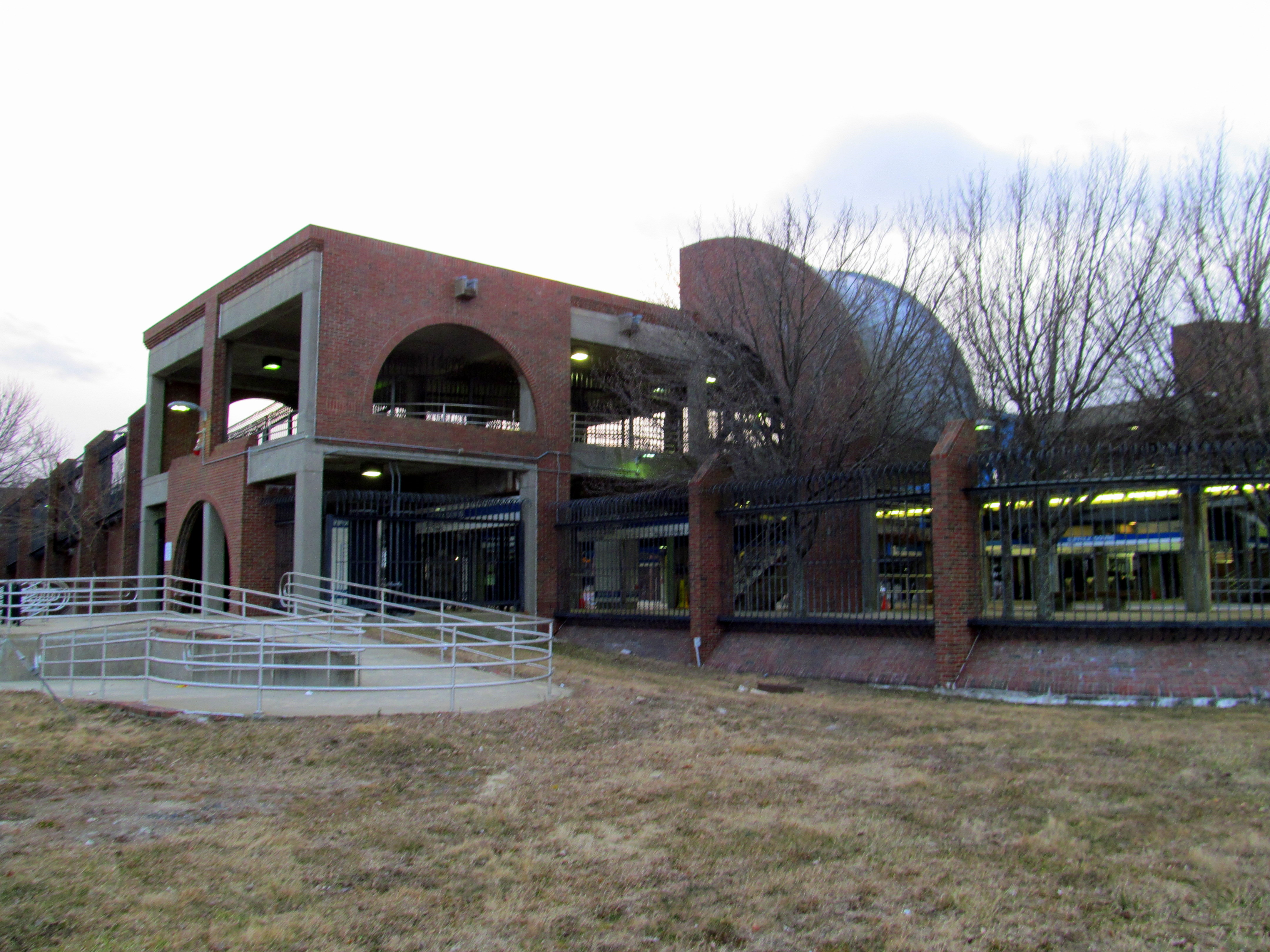 Exterior of Suffolk Downs station from Bennington Street lot